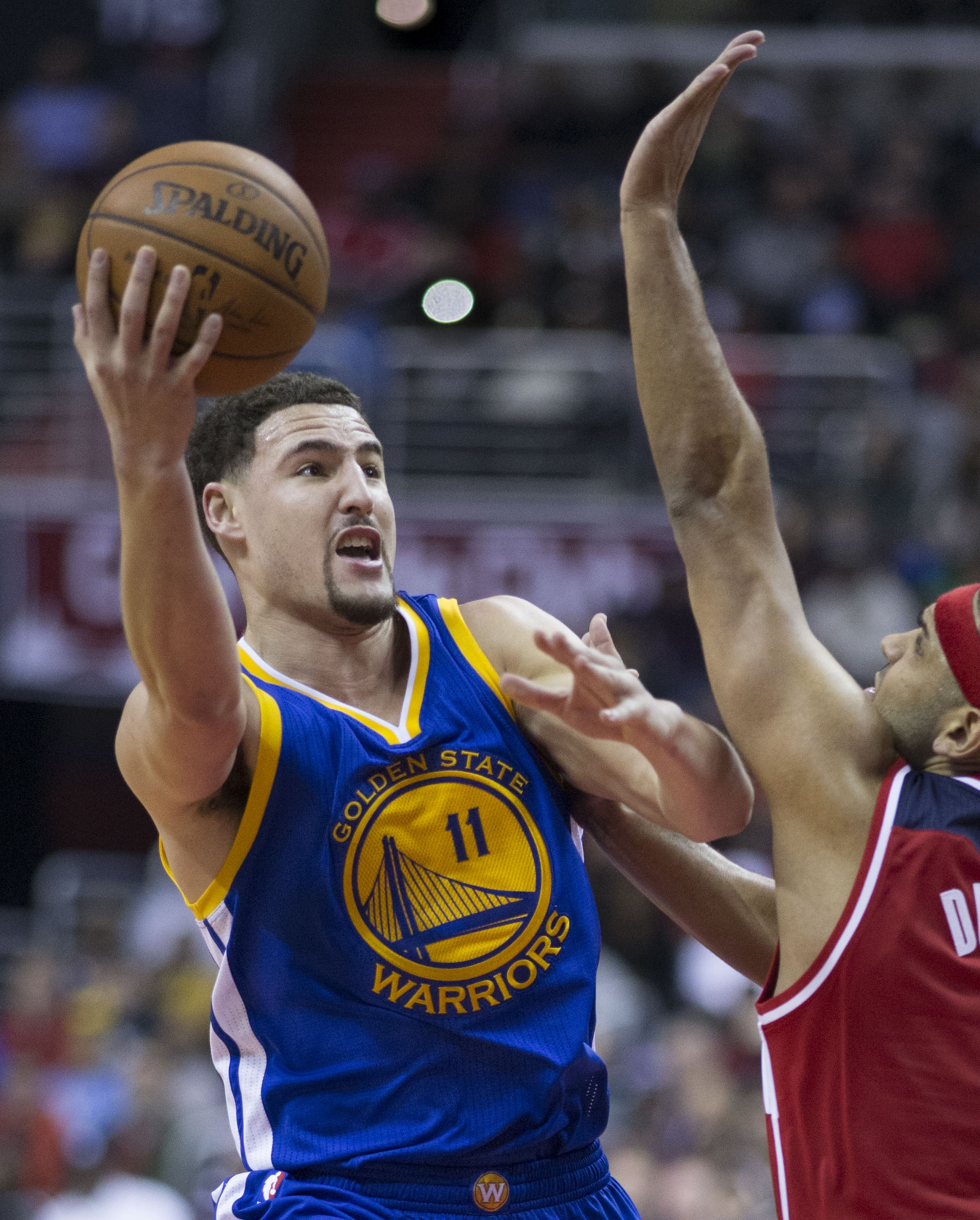 Klay Thompson of Golden State Warriors shooting against Jared Dudley of Washington Wizard